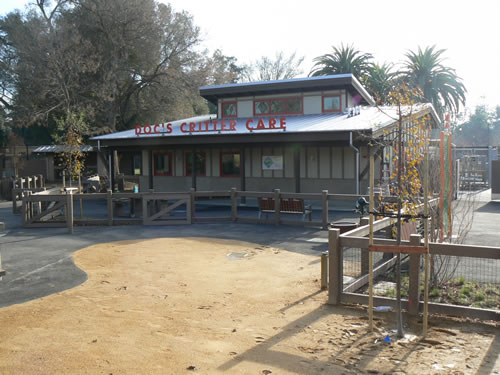 Doc’s Critter Care at Happy Hollow Park & Zoo, California, USA The new animal hospital featuring indoor and outdoor quarantine, surgery and radiology facilities.